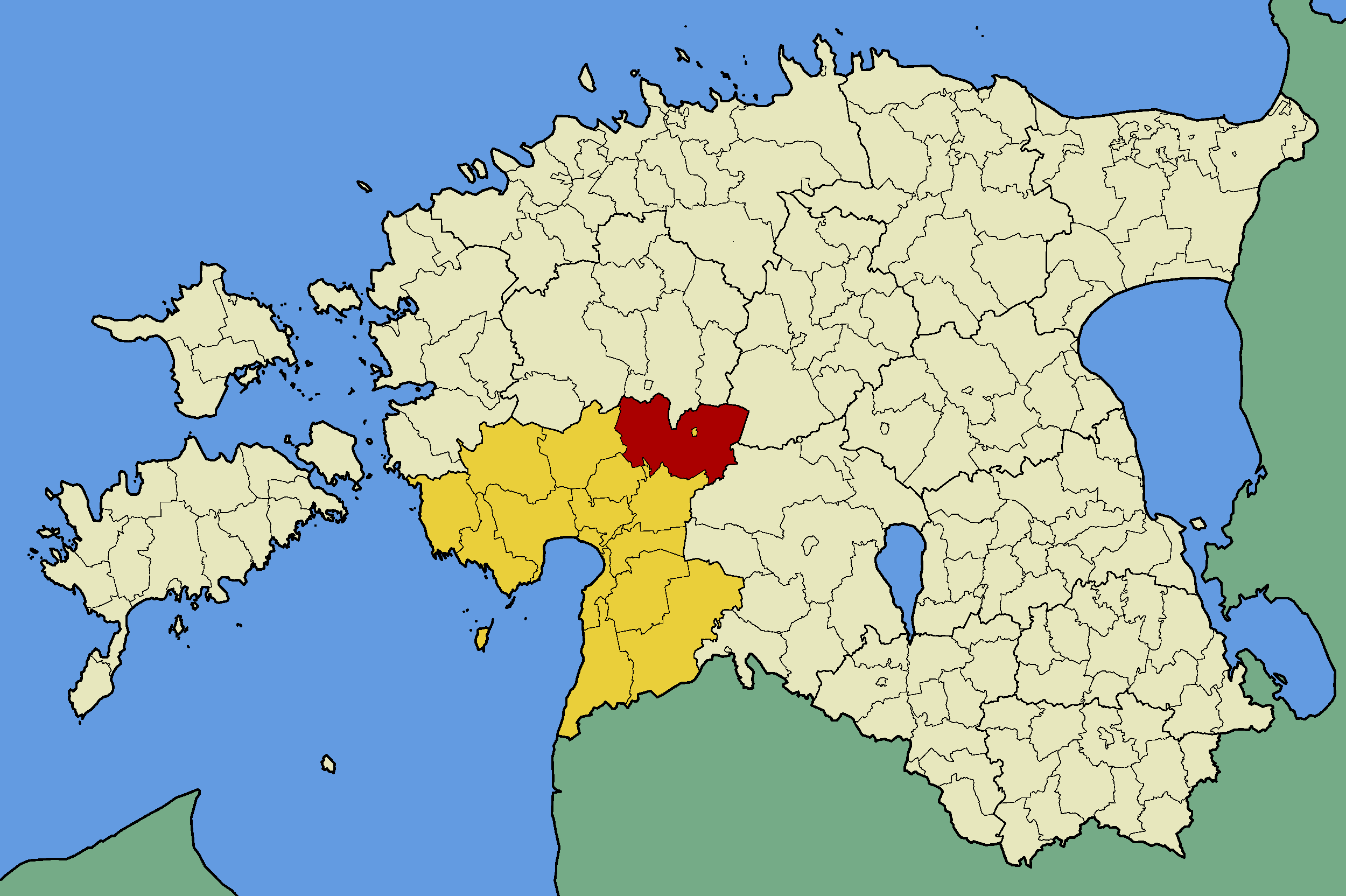 Map of Estonia with borders of municipalities (parishes). Pärnu county and Vändra municipality emphasized.